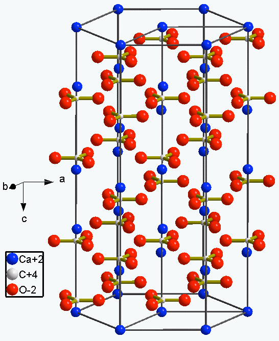 Calcite crystal structure. The blue background in file calcite.png was removed.